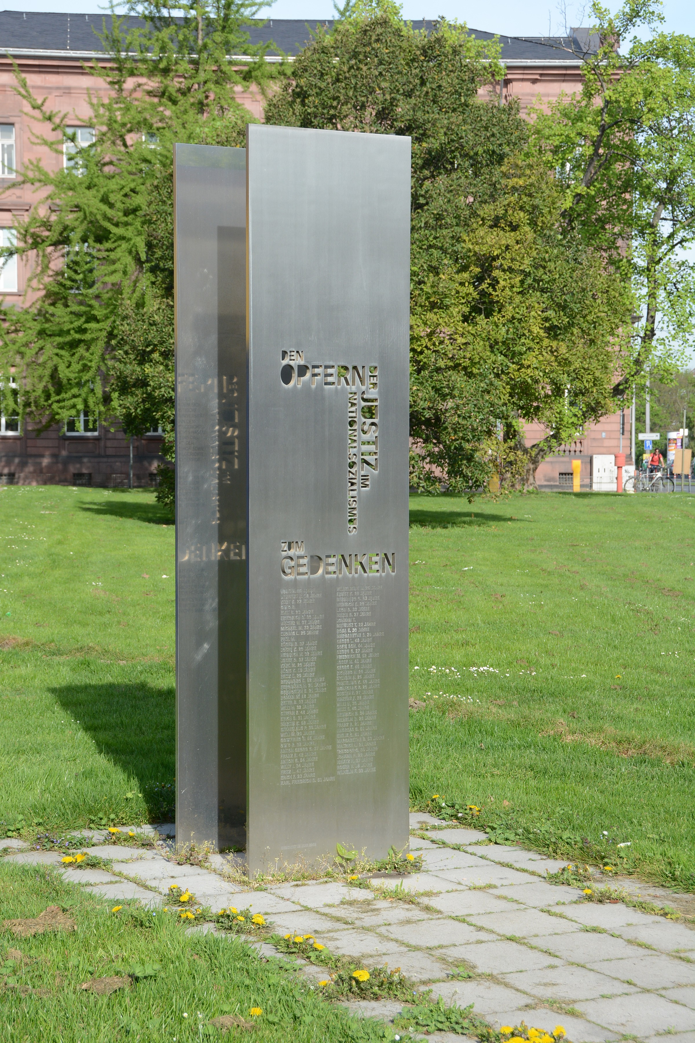 Memorial to victims of Nazi justice in Mannheim, Germany